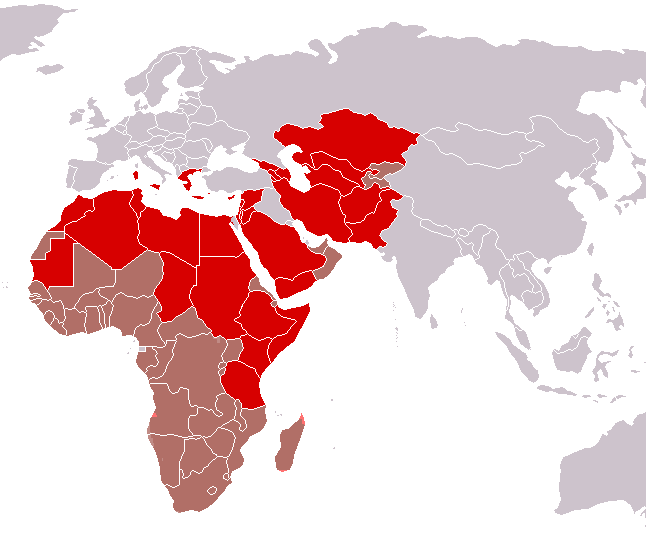 Distribution for genus Ochrilidia